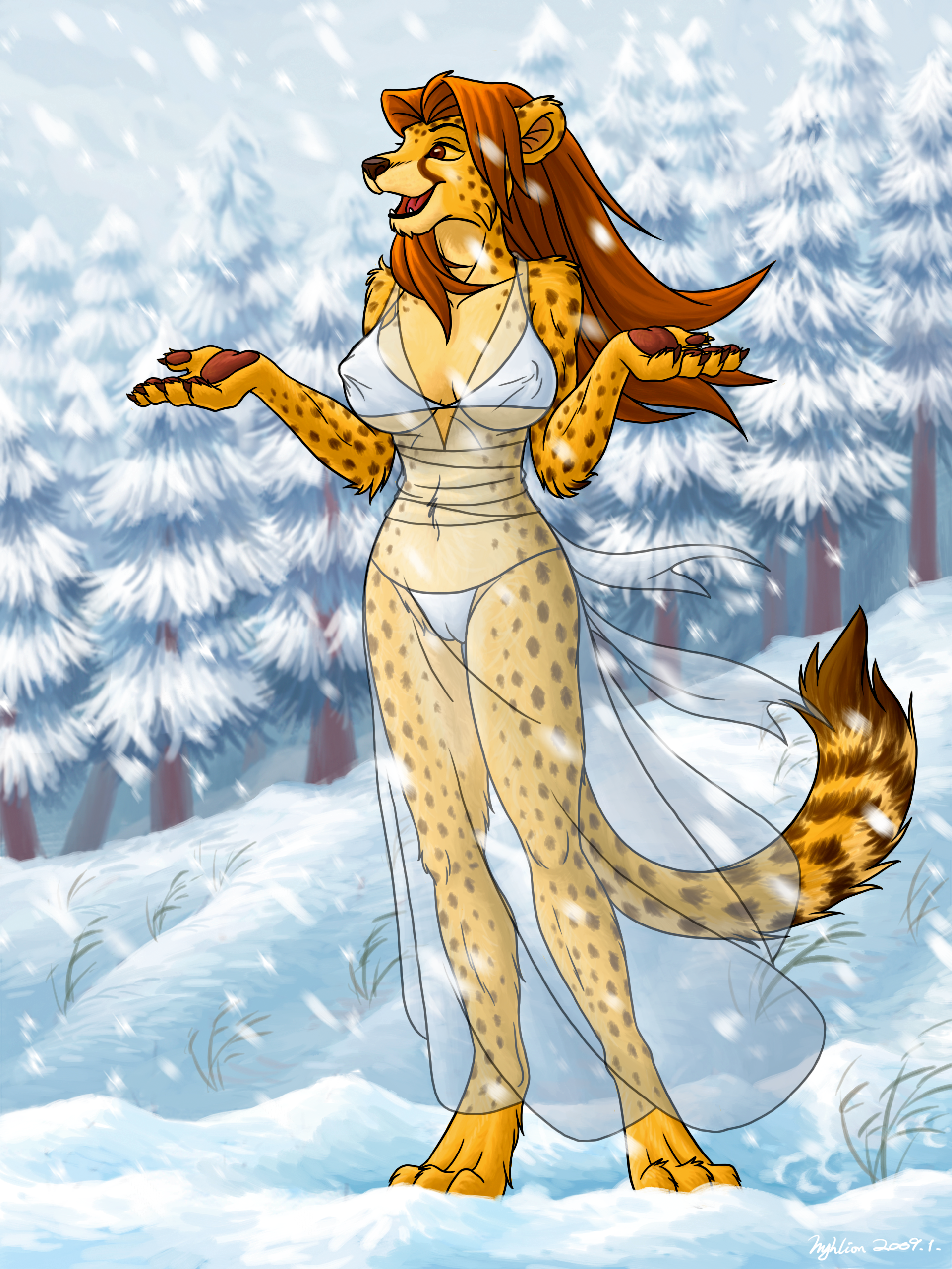 One of the eleven variants of the artwork Winter Lady, featuring the cheetah character “Fahada”.